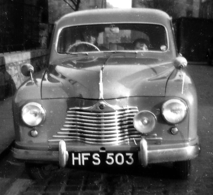 Singer SM1500 (in production 1948 – 1953) in Leith, Scotland around 1960.